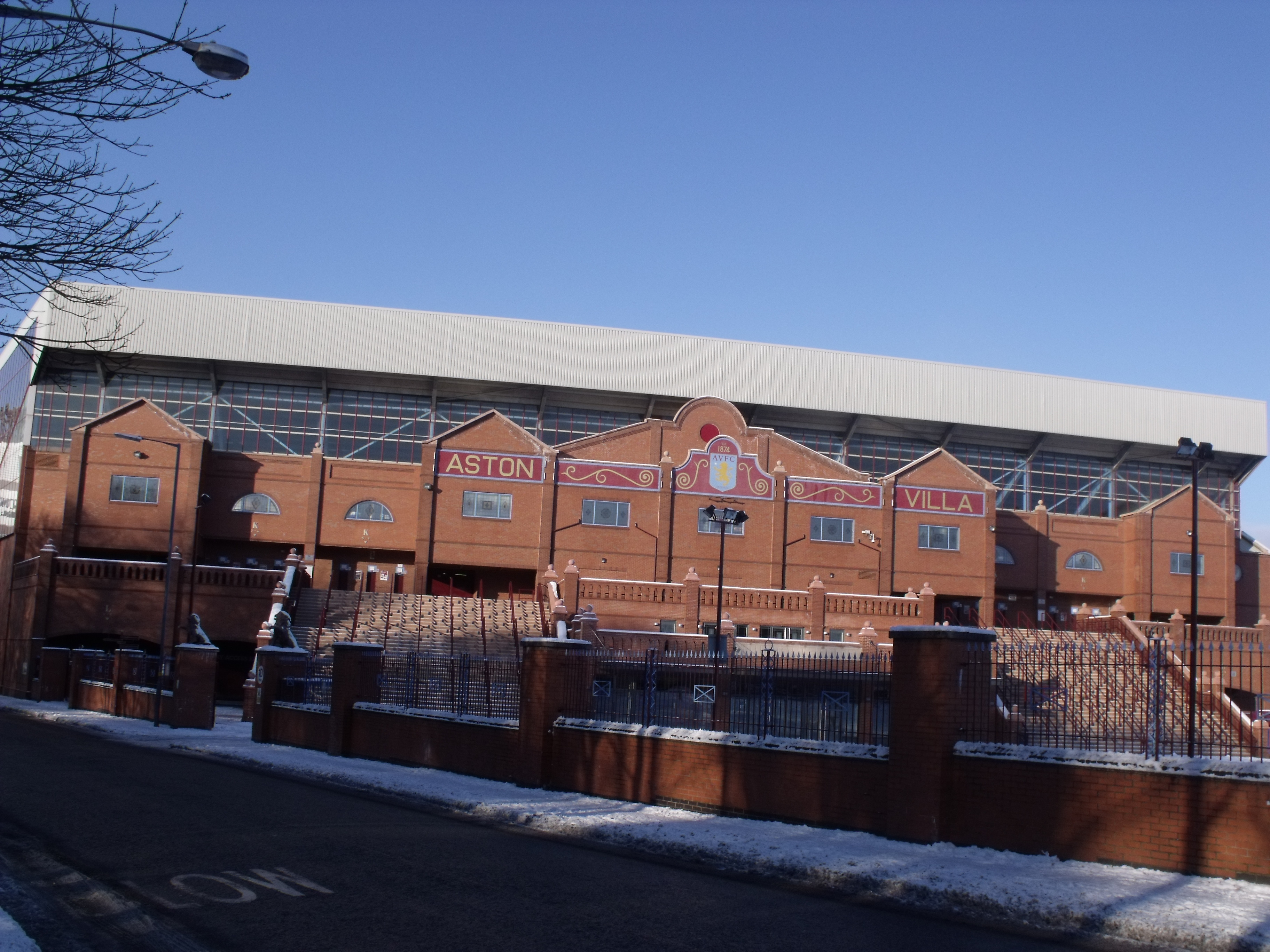 The brick facade of the Holte End stand of Villa Park. The mosaic was added in 2008 by the owner Randy Lerner. The Holte Suite, entrance seen in the bottom left, was refurbished in the summer of 2009.